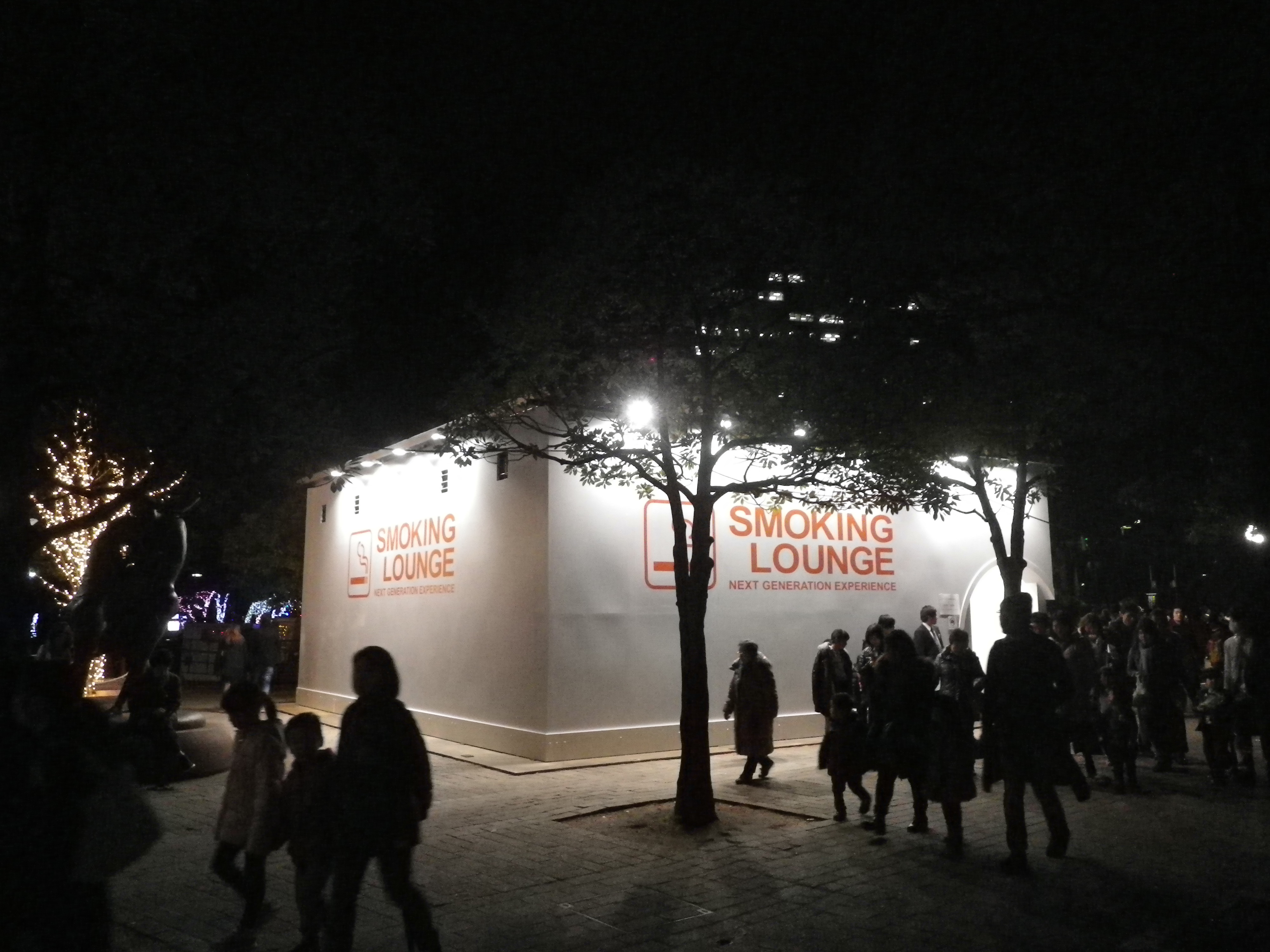 Promotion of the heated tobacco product Glo (British American Tobacco) in Japan.